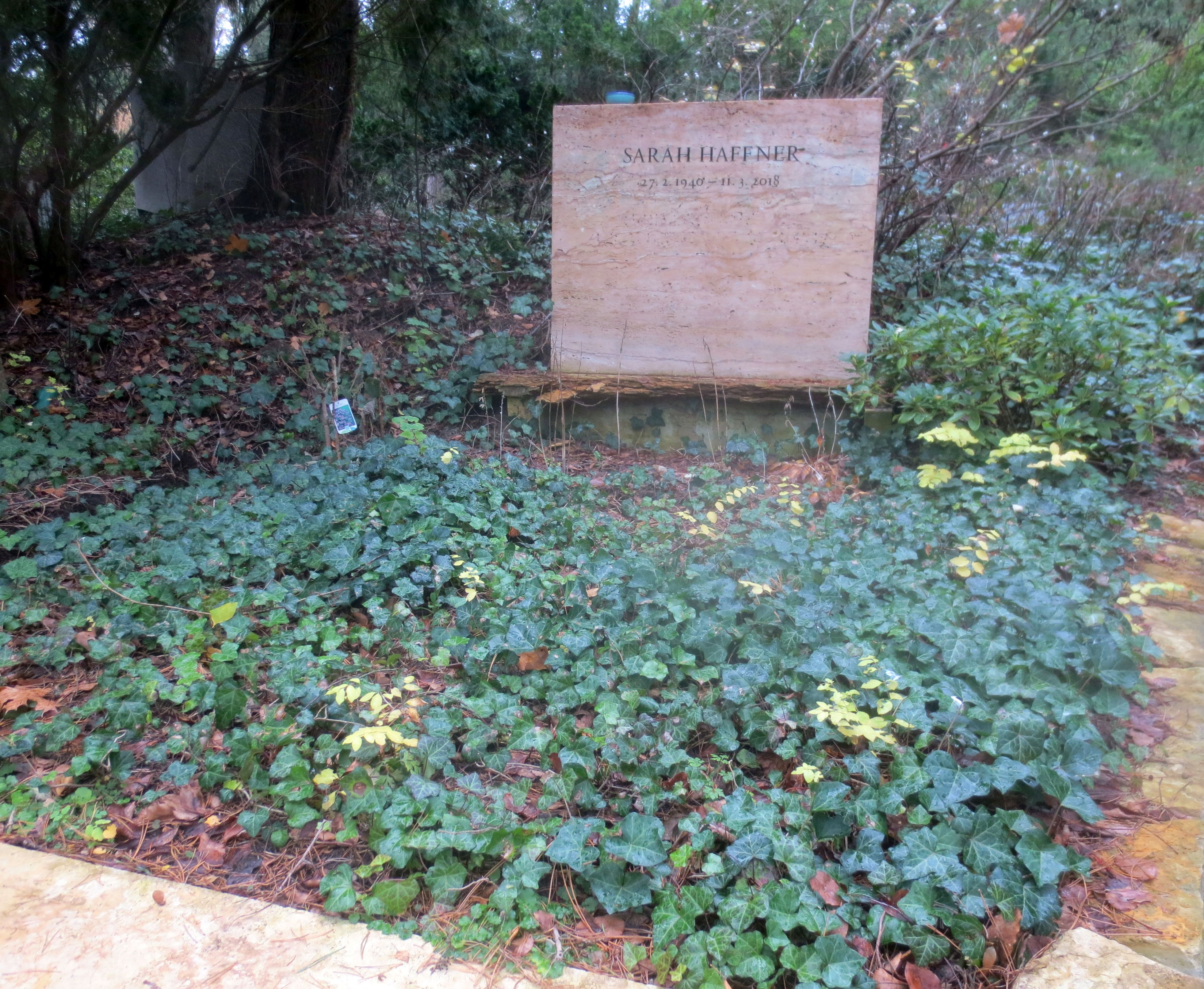 Grave of the painter and writer Sarah Haffner (1940-2018) on the Friedhof Heerstraße cemetery in Berlin-Westend.